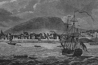 An east view of Montreal, in Canada Print shows a view of Montréal from across the Saint Lawrence River, with ships in the foreground, and a legend identifying the General Hospital, the "Recollects," St. Sulpicius, the nunnery, the Jesuit's Church, and the fort.